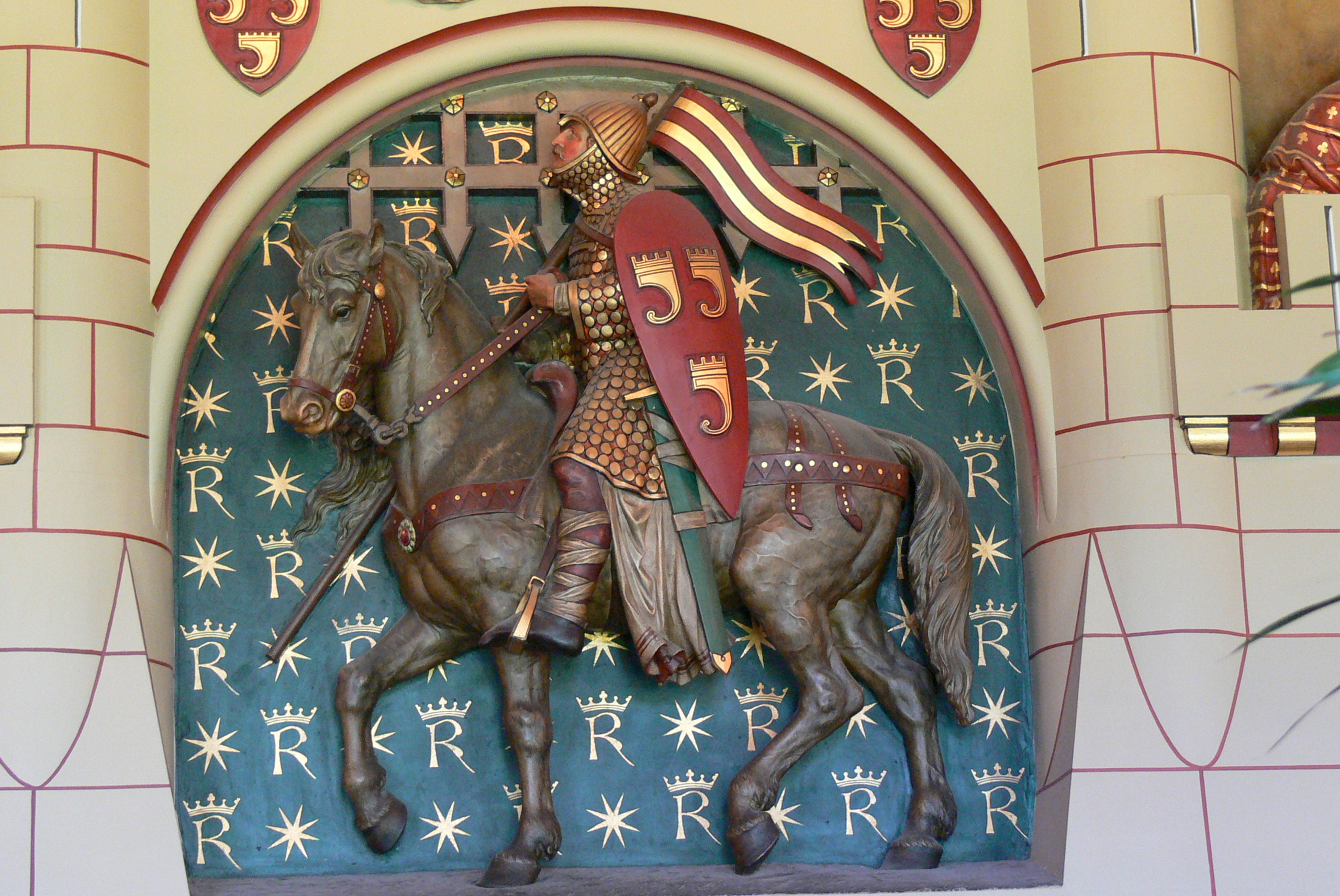 Cardiff Castle ( Wales ). Castle apartments: Banqueting hall ( 1873 ) - Fireplace with relief of Robert, 1st earl of Gloucester.